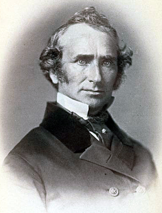 Garnett Adrain, US Representative from New Jersey